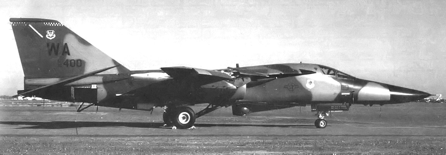 422d Test and Evaluation Squadron - General Dynamics F-111F - 70-2400